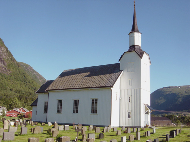 Nesset and the Vistdal kirke